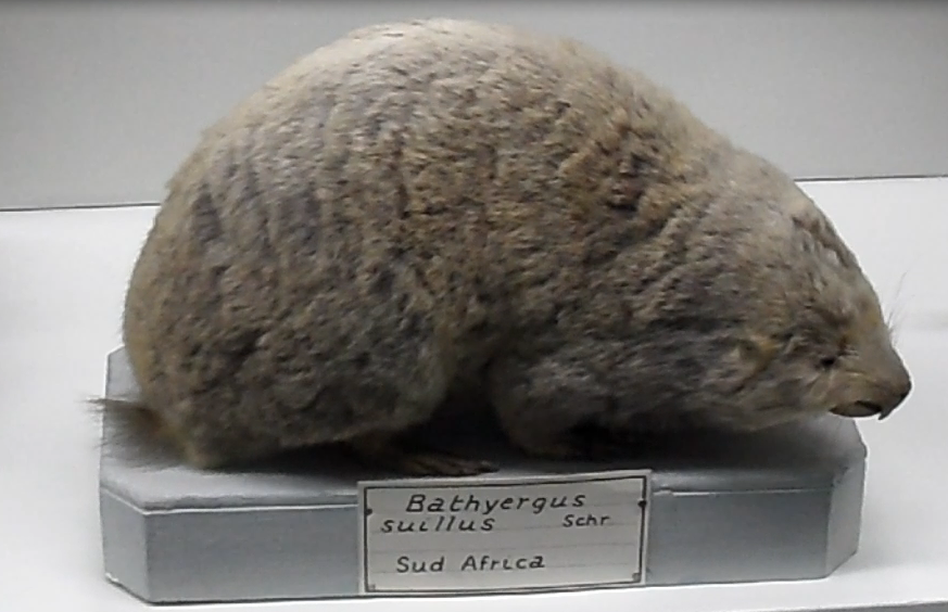 Cape dune mole rat on display in the Natural History Museum of Genoa